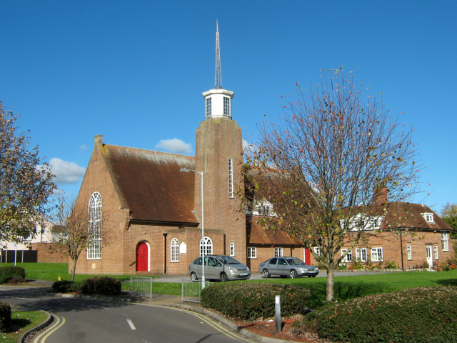 Roman Catholic church of St Teresa of Lisieux, Eastwick Road, Priorswood, Taunton, Somerset, seen from the south. The house on the right is the presbytery.